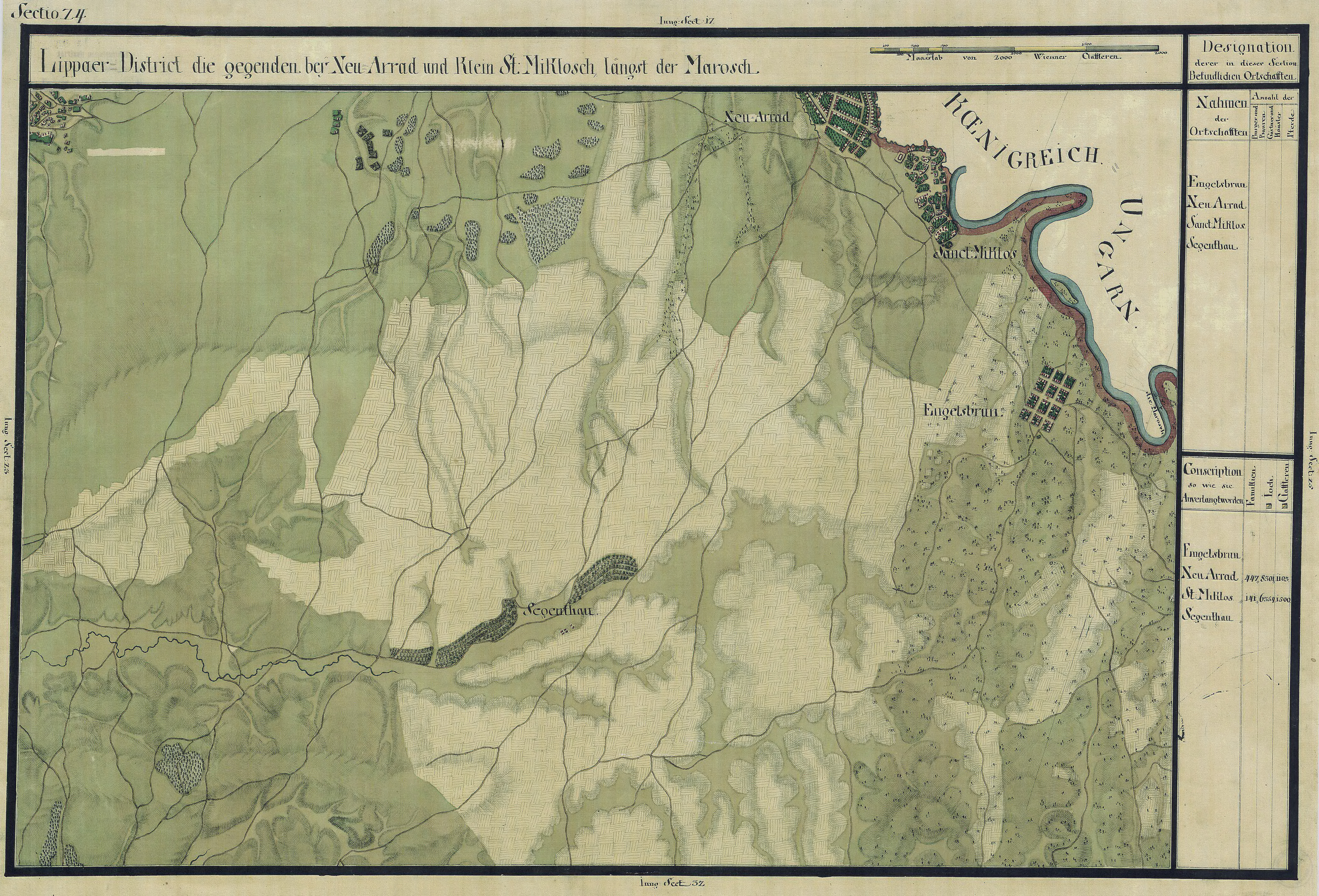 The Banat region in the cadastral maps: Josephinische Landesaufnahme, 1769-72. Josephinische Landaufnahme pg024